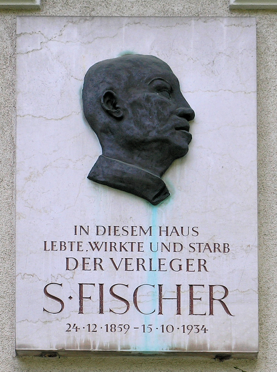 Memorial plaque, Samuel Fischer, Erdener Straße 8, Berlin-Grunewald, Germany Koordinate:52°29′27″N 13°16′26″E / 52.49083°N 13.27389°E